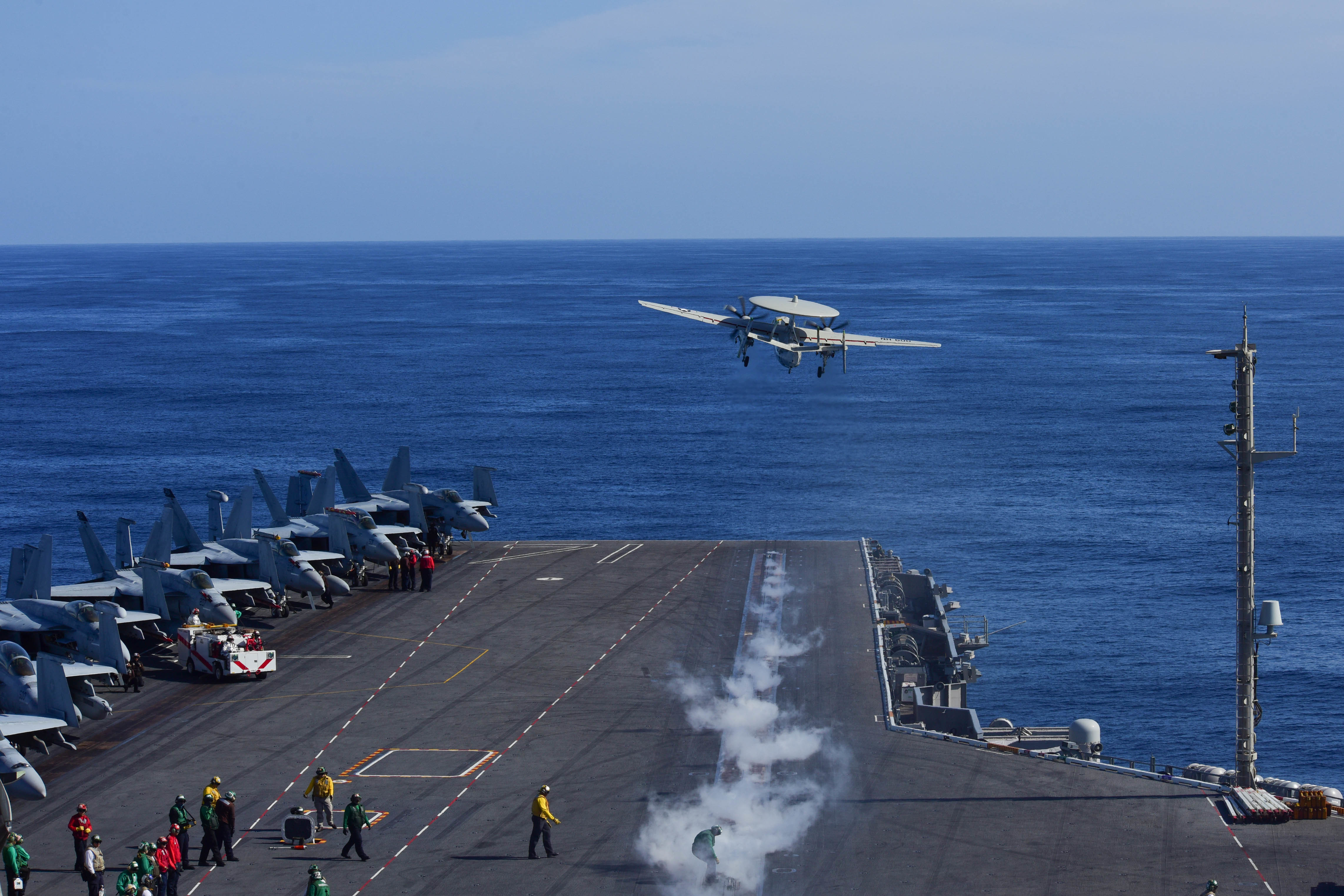 PACIFIC OCEAN (Nov. 22, 2019) An E-2C Hawkeye assigned to the Liberty Bells of Airborne Early Warning Squadron (VAW) 115 launches from the flight deck of the aircraft carrier USS Theodore Roosevelt (CVN 71), Nov. 22, 2019. Theodore Roosevelt is conducting routine training in the Eastern Pacific Ocean. (U.S. Navy photo by Mass Communication Specialist Seaman Apprentice Dylan Lavin/Released) 191122-N-TL141-1018